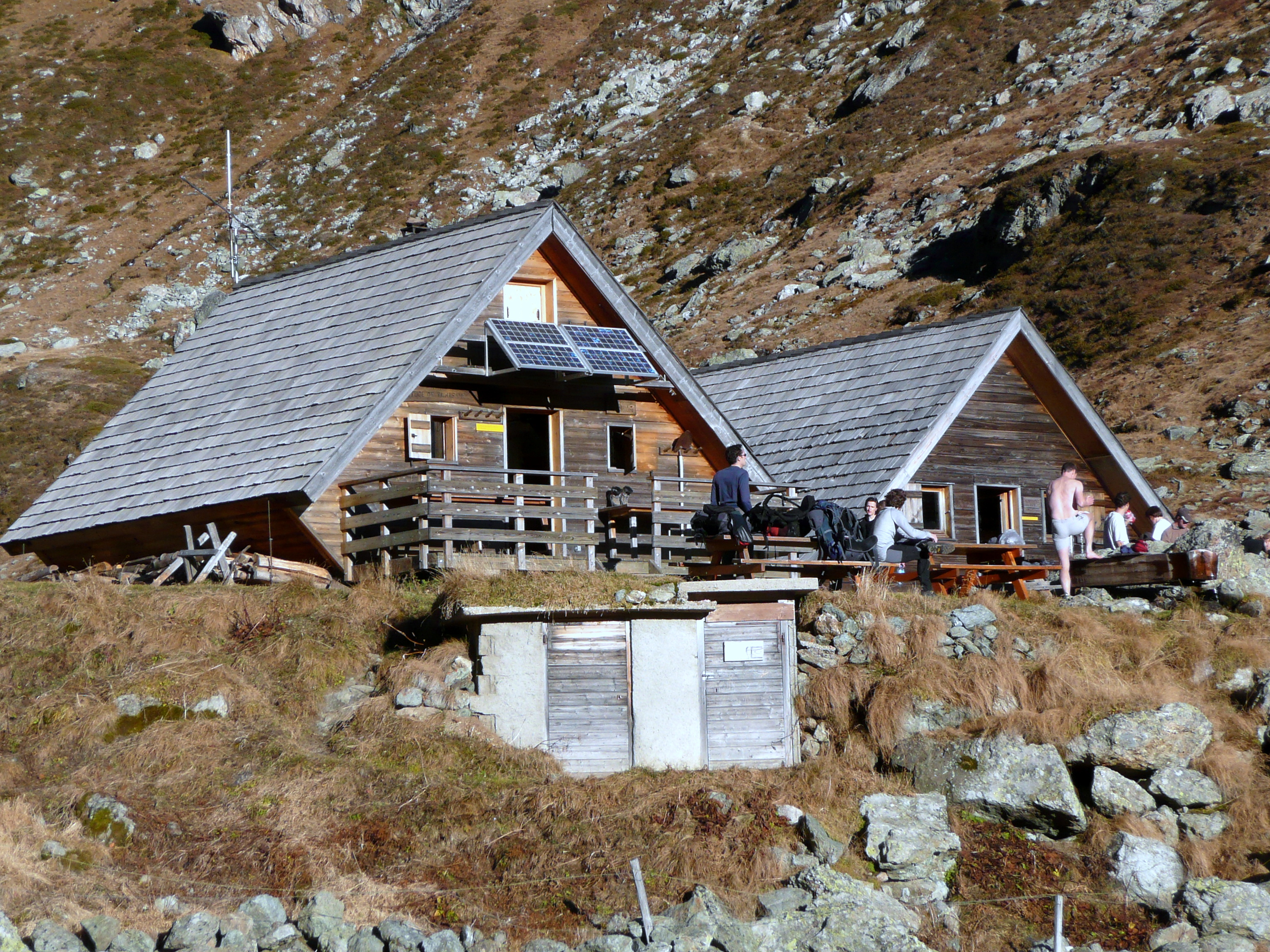 Plaisance alpine hut at the end of the fall, Vanoise National park, Champagny en Vanoise, France